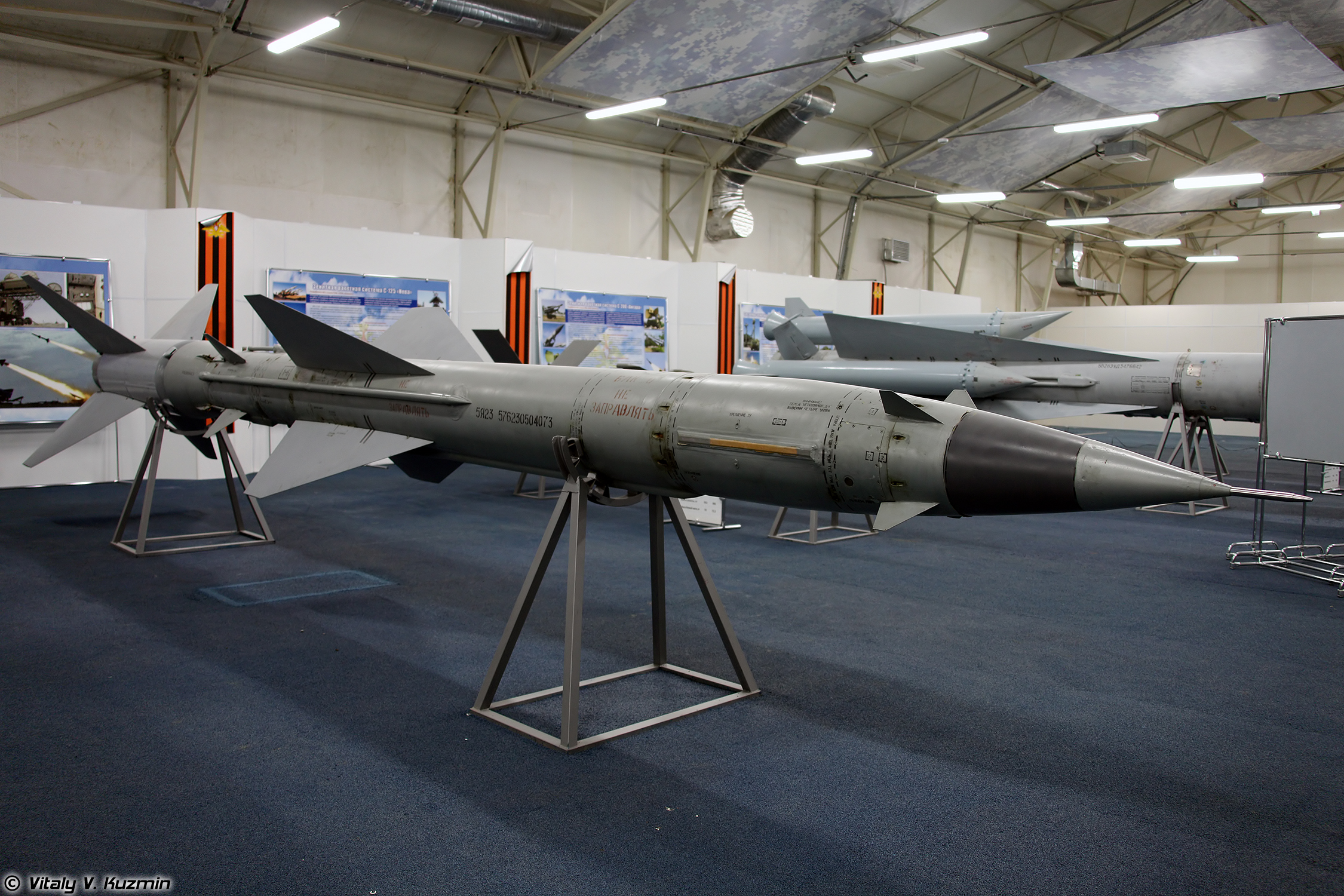 5Ya23 SAM S-75M system - Park Patriot